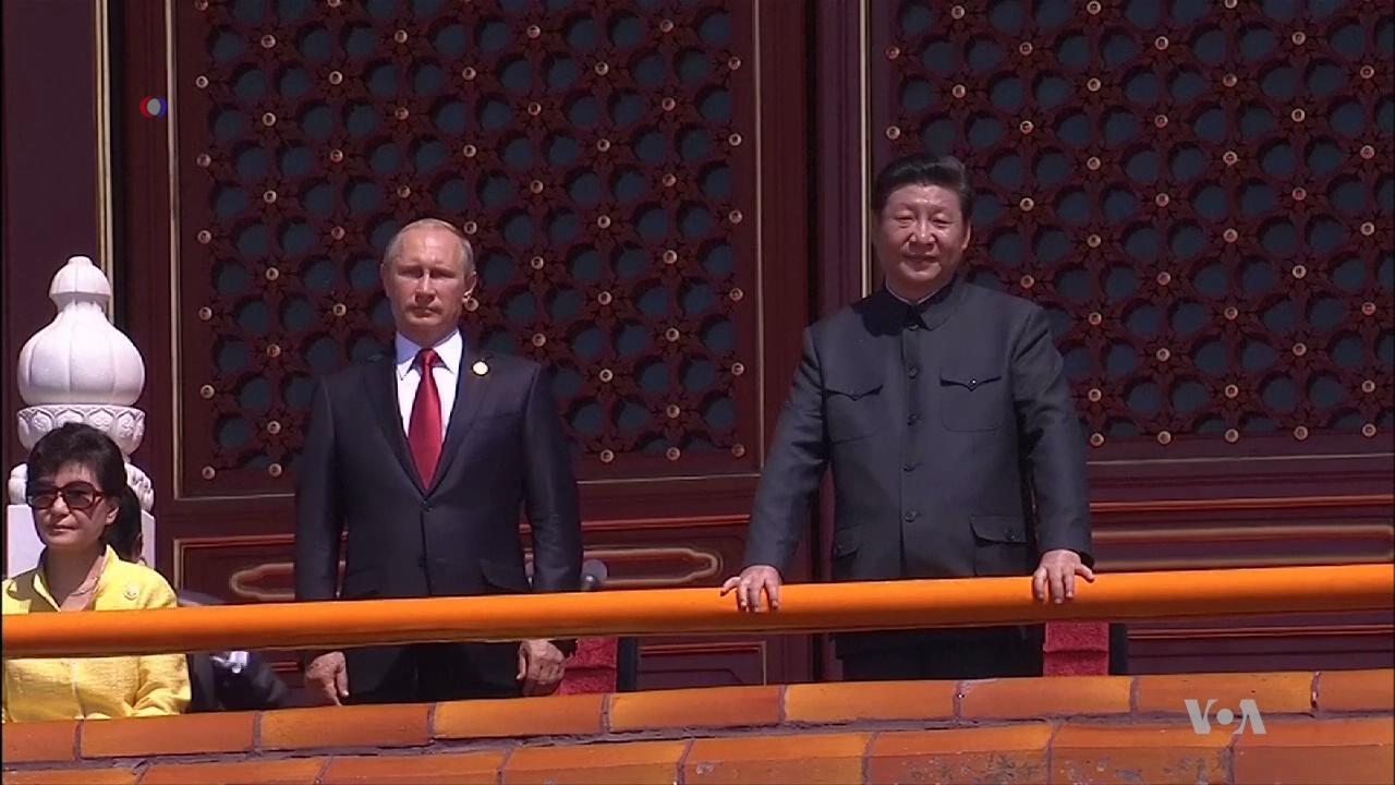 2015 China WWII Parade (screenshot)